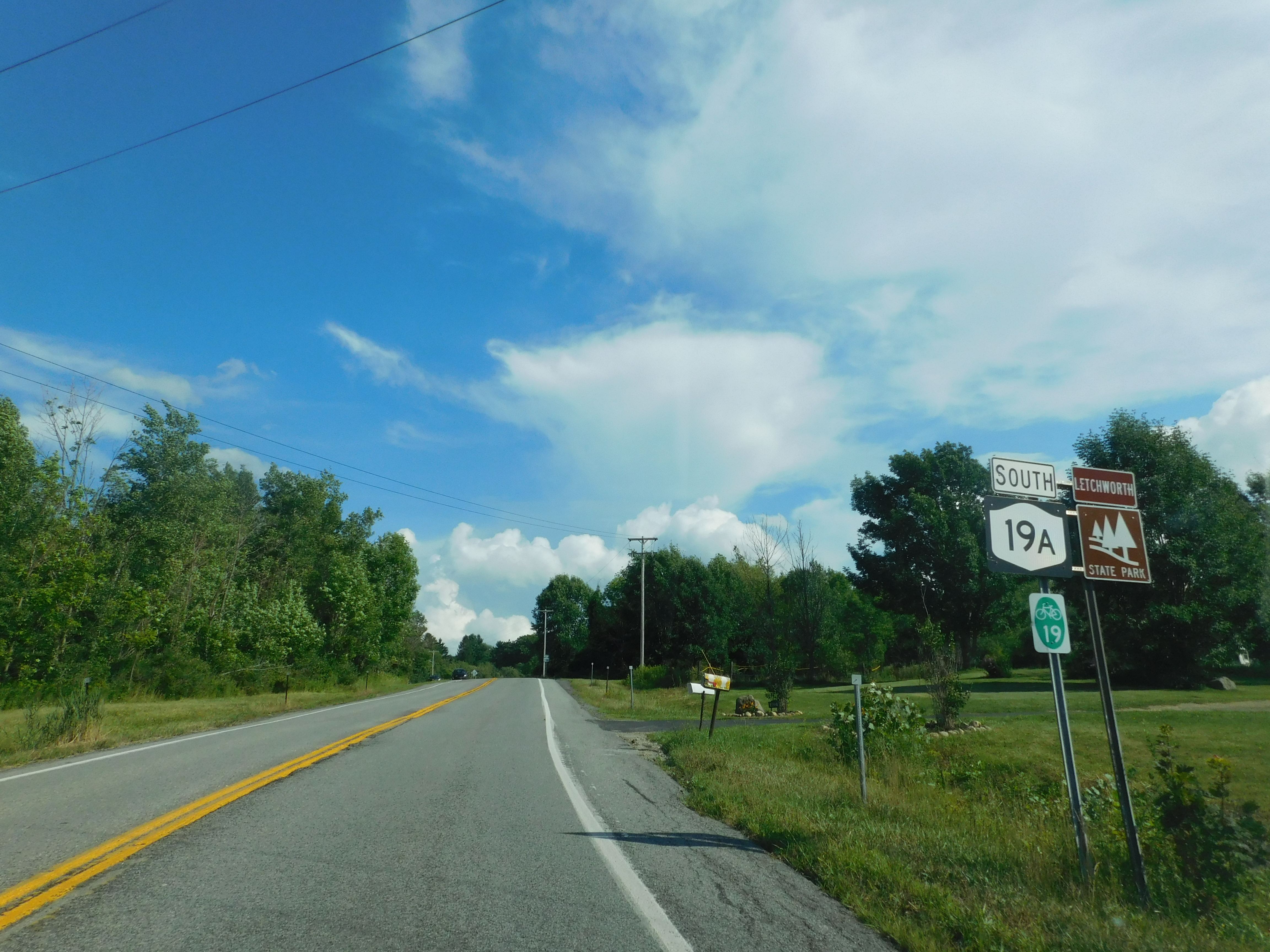 NY 19A southbound towards Letchworth State Park.